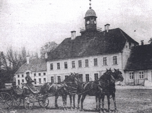 Trakehner stud house in Trakehnen, East Prussia, Germany; today Yasnaya Polyana, Kaliningrad Oblast, Russia